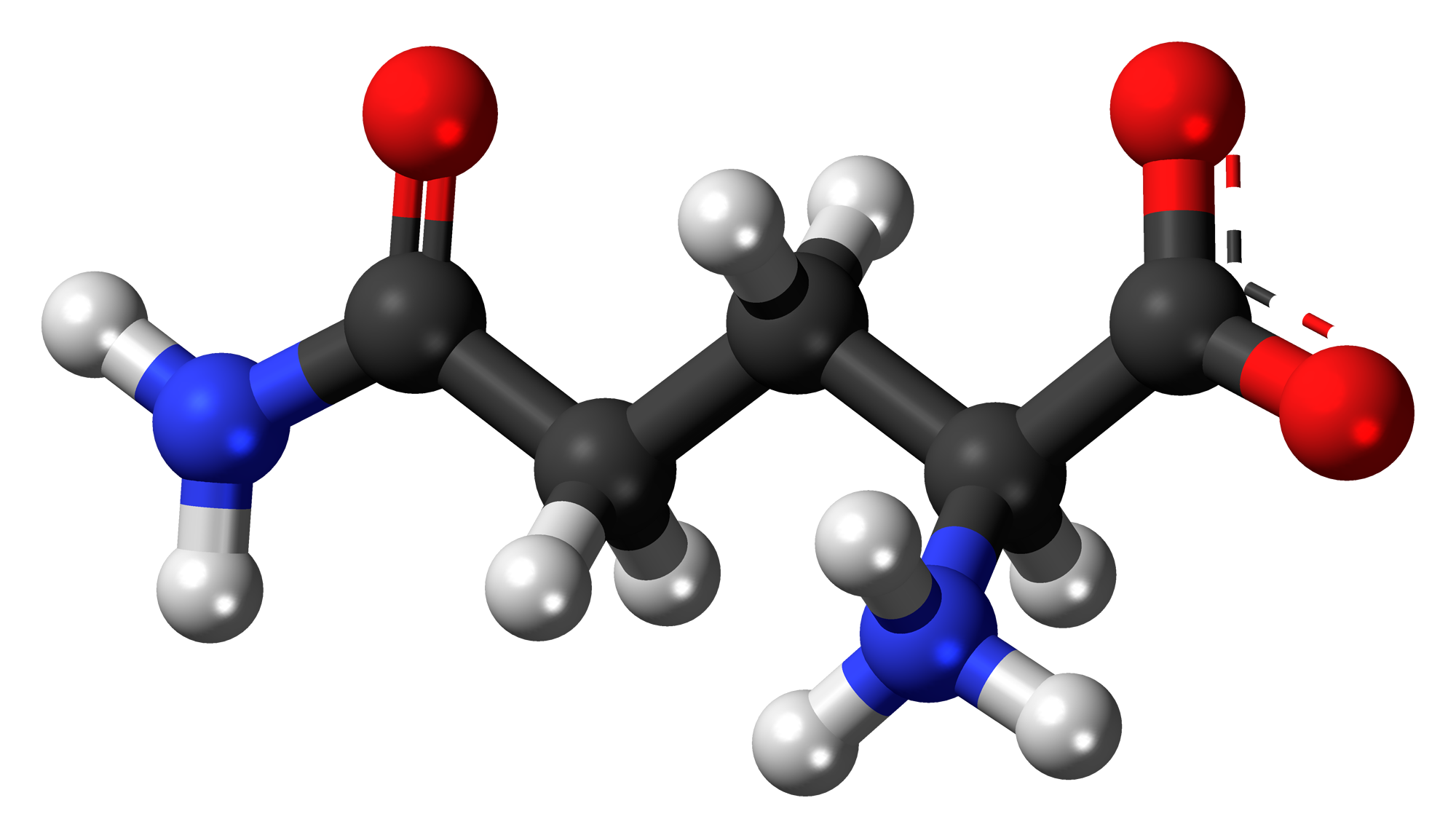 Ball-and-stick model of the glutamine molecule, one of the 20 amino acids used to build proteins. This image shows the L isomer in zwitterionic form. Colour code: Carbon, C: black Hydrogen, H: white Oxygen, O: red Nitrogen, N: blue